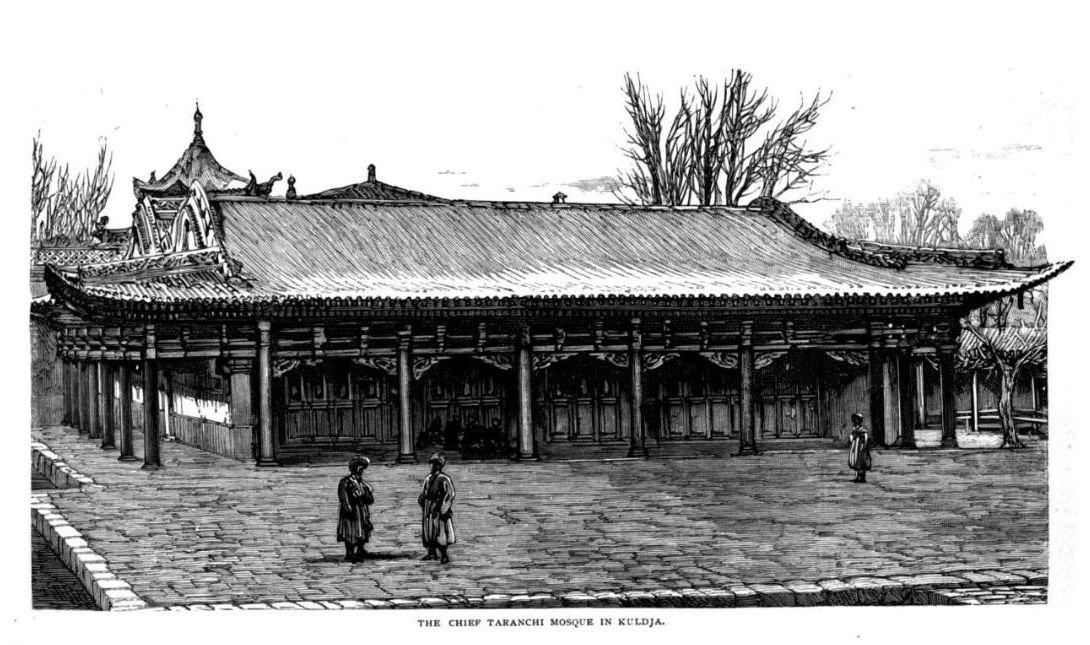 "The chief Taranchi mosque in Kuldja" (i.e. the main Uyghur mosque in Yining)